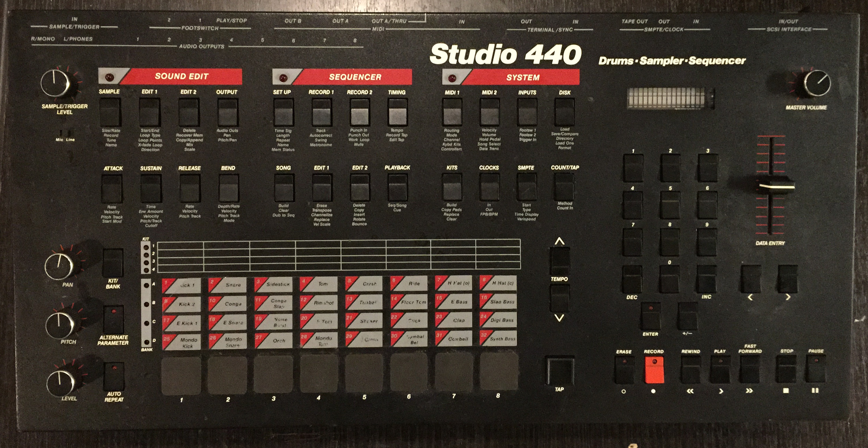 Overhead shot of the Sequential Circuits Studio 440.